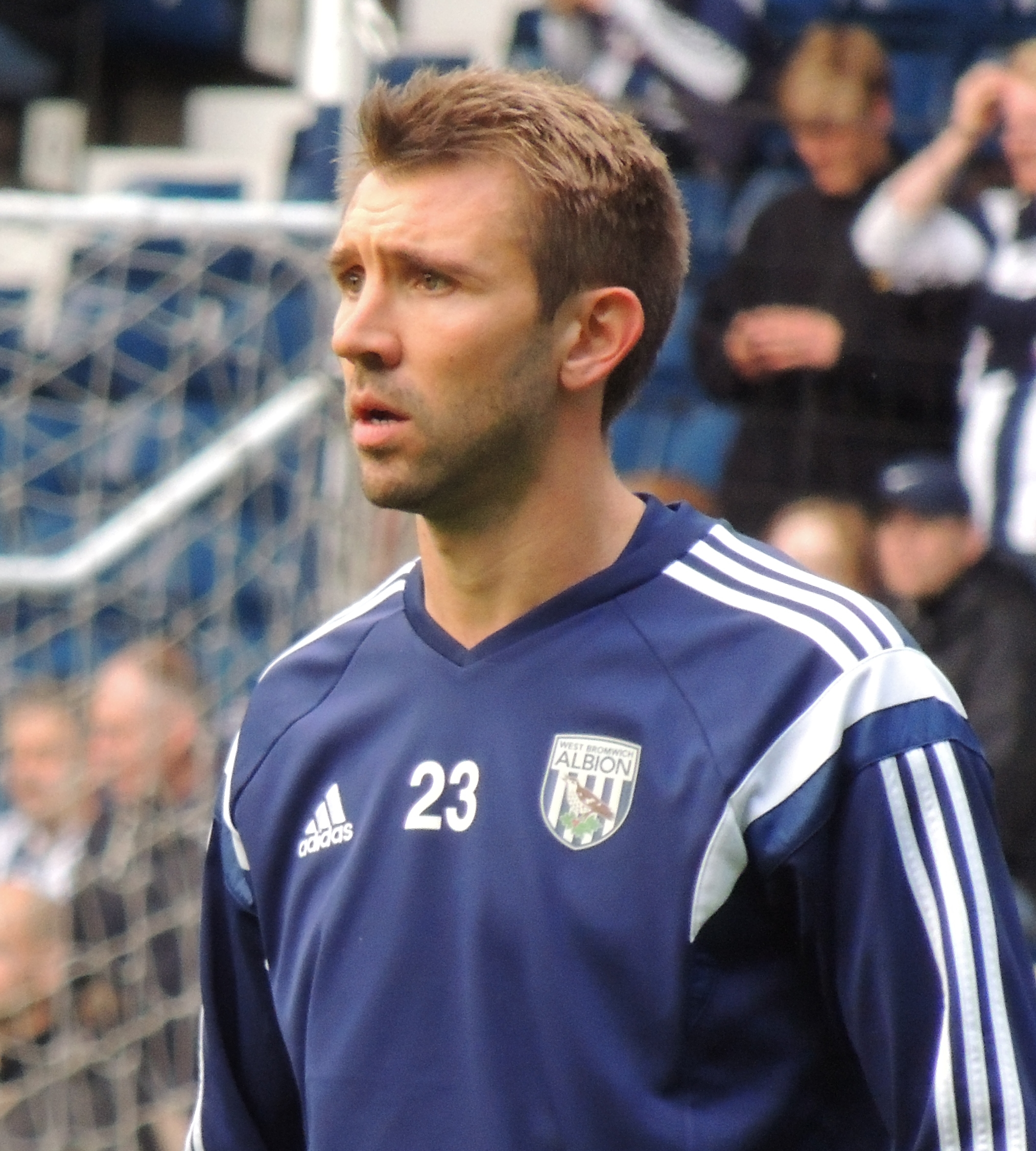 Gareth McAuley warming-up for West Bromwich Albion in 2014.